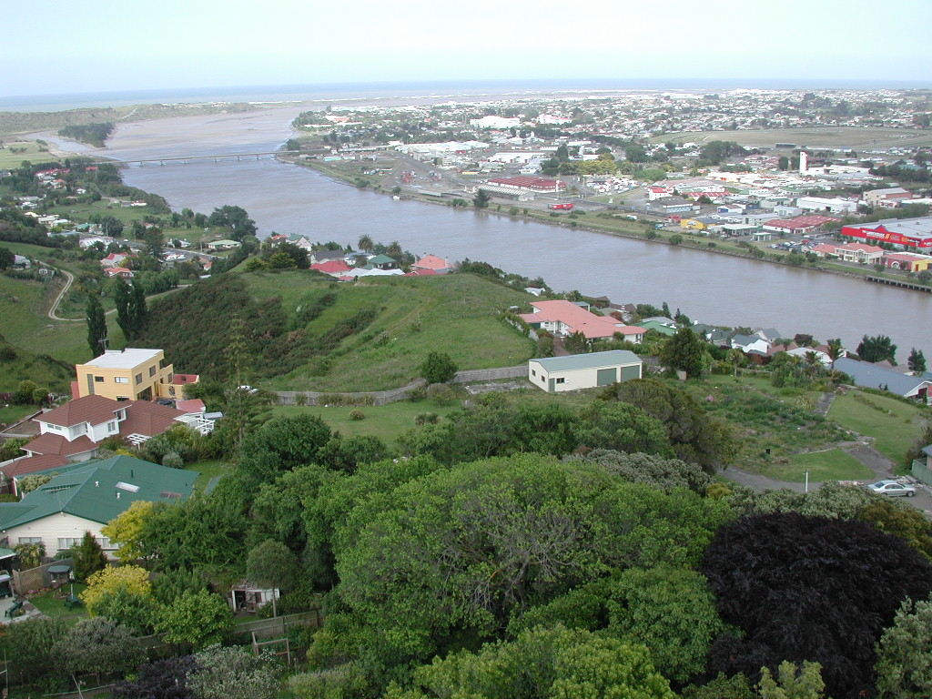 Wanganui (New Zealand) and Whanganui River from Durie Hill, looking towards the sea.